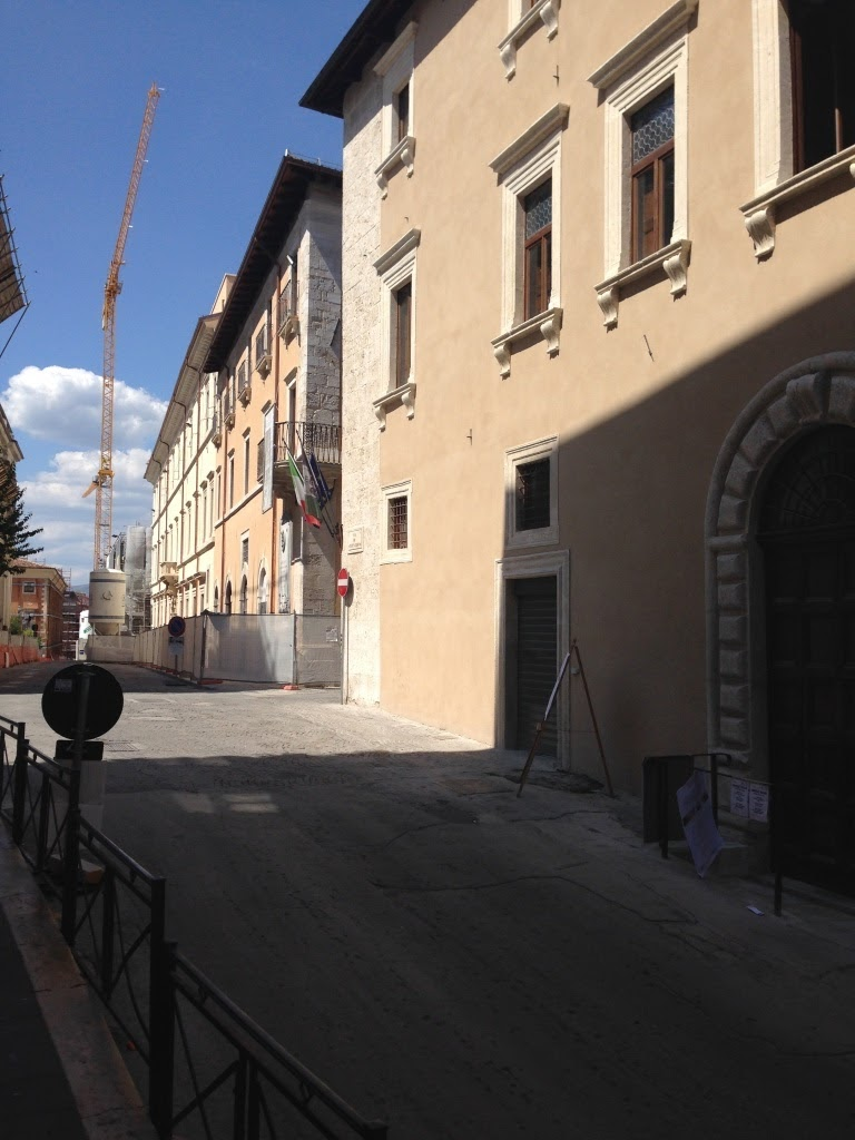 L'Aquila